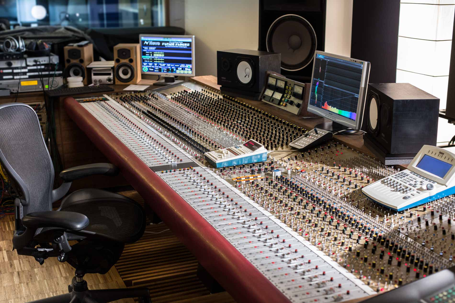 Idee und Klang - Regie